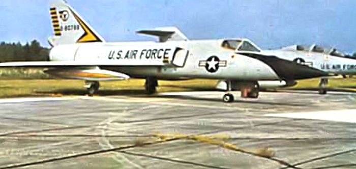 460th Fighter-Interceptor Squadron F-106, 1970s